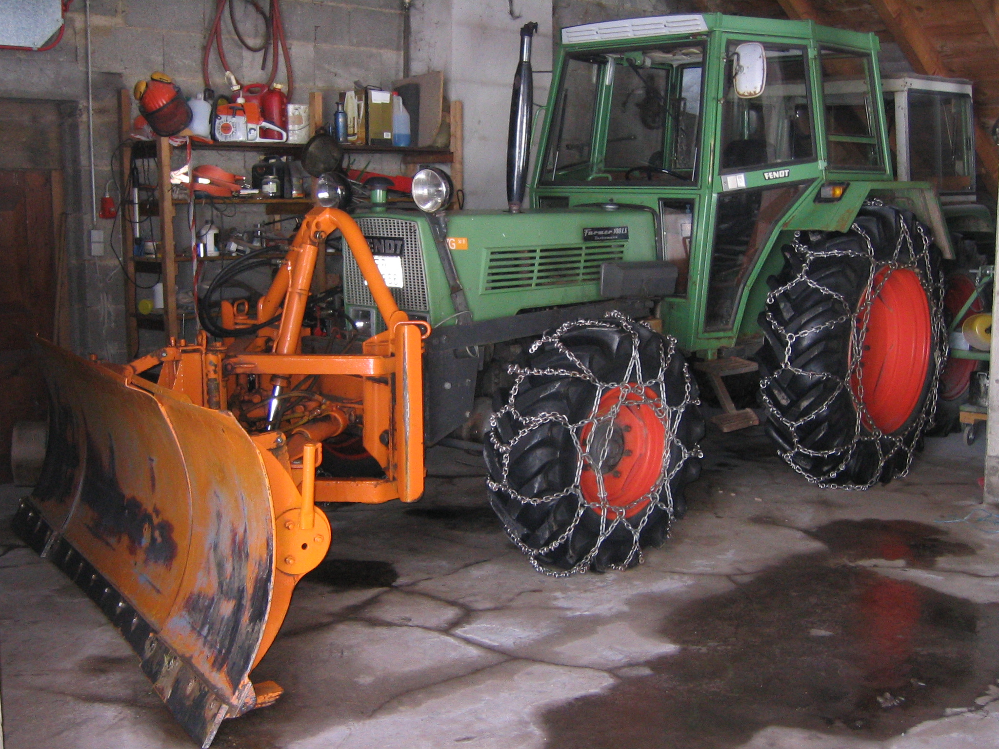 Fendt Farmer 108 LS with snow chains and snow plow